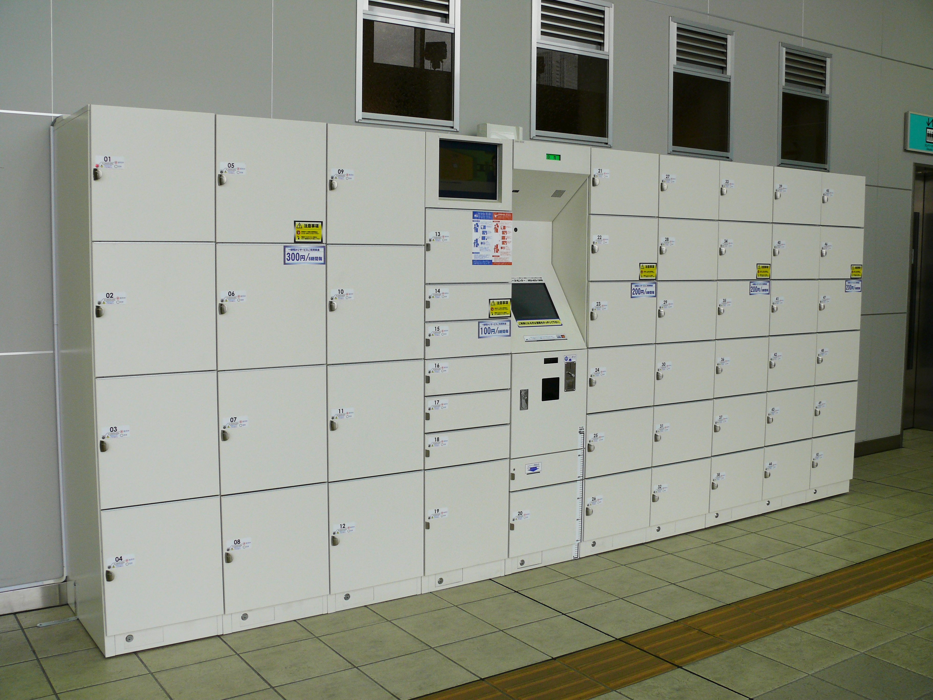 IT Rocker of Station Aonami Line On the SASASHIMA live station of AONAMI line